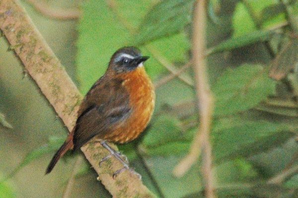 Uganda Archer's Robin-chat Cossypha archeri